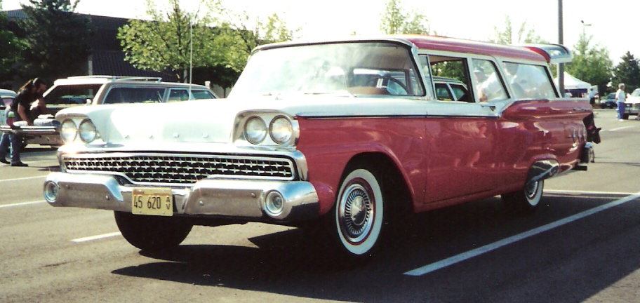 1959 Ford 2-door Ranch Wagon I photographed in Dearborn, Michigan in June 2001.